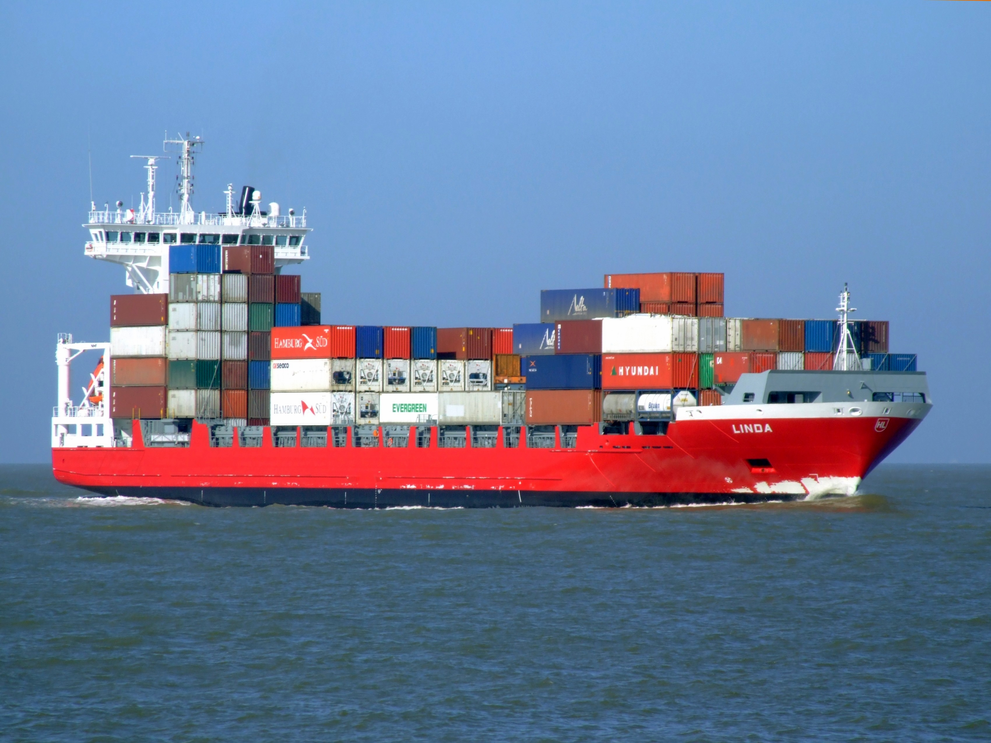 Linda Port of Rotterdam 08-Mar-2007.